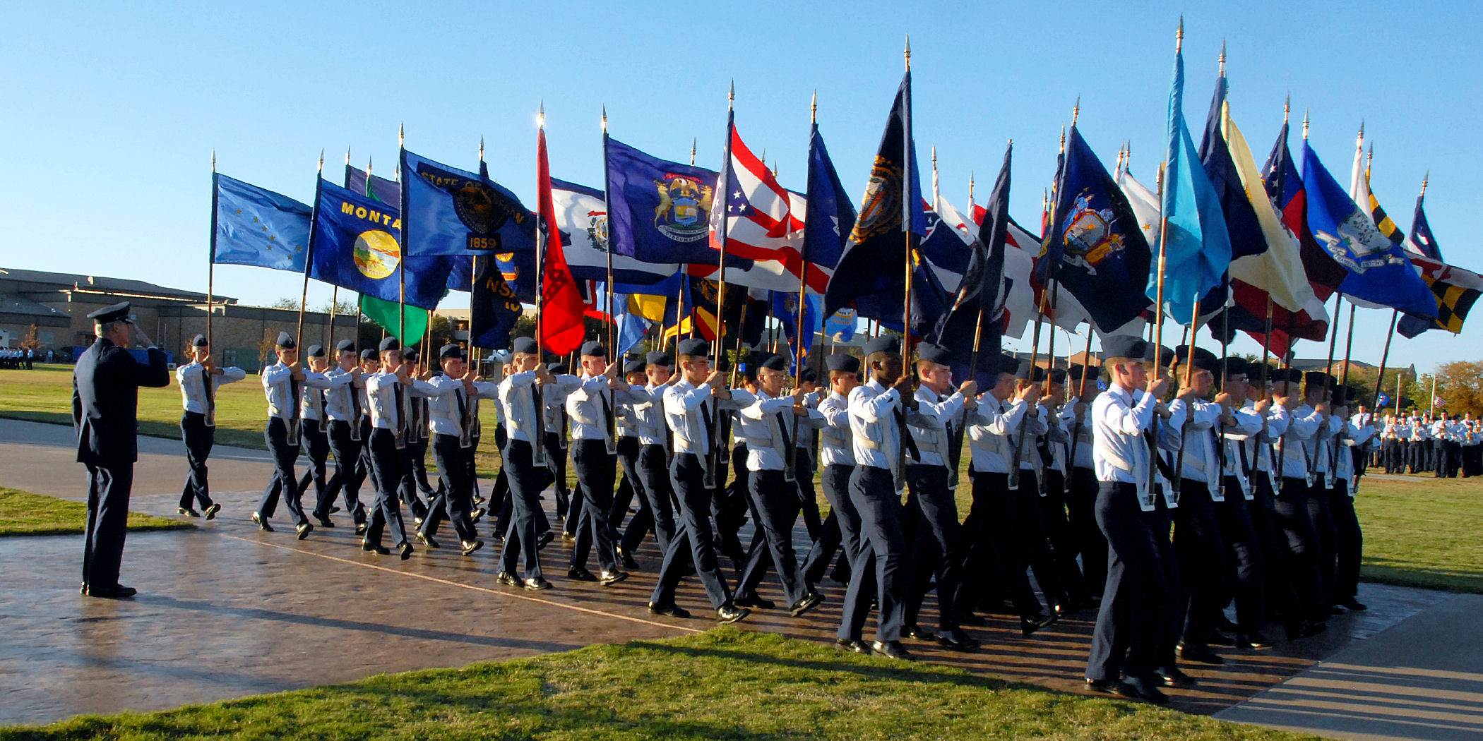 Brig. Gen. O.G. Mannon, left, commander of the 82nd Training Wing, renders a salute to the flags of the 50 United States during a parade Nov. 7 at the base parade grounds.